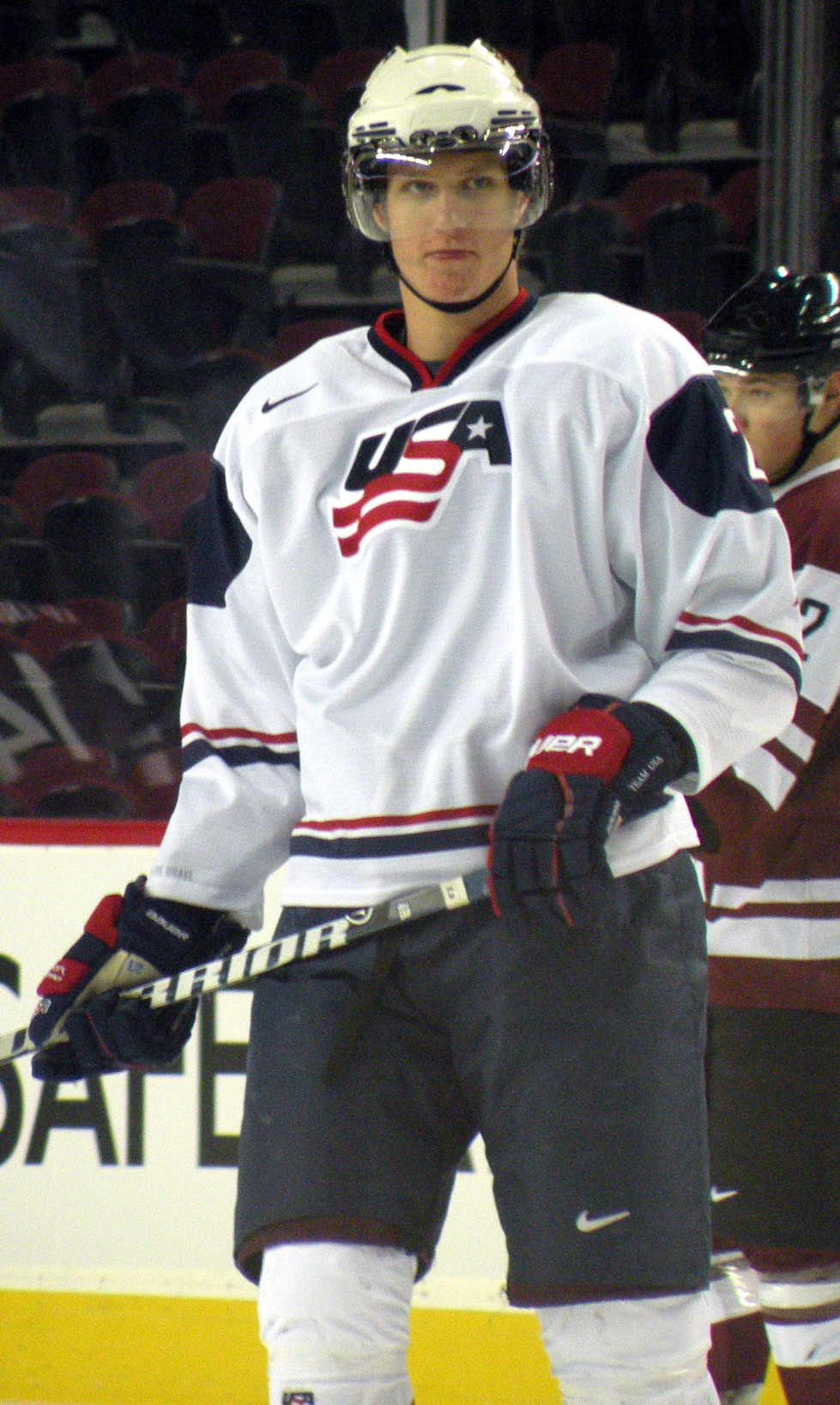 Team USA forward Nick Bjugstad prior to a game against Team Latvia at the 2012 World Junior Hockey Championships at Calgary, Alberta, Canada.